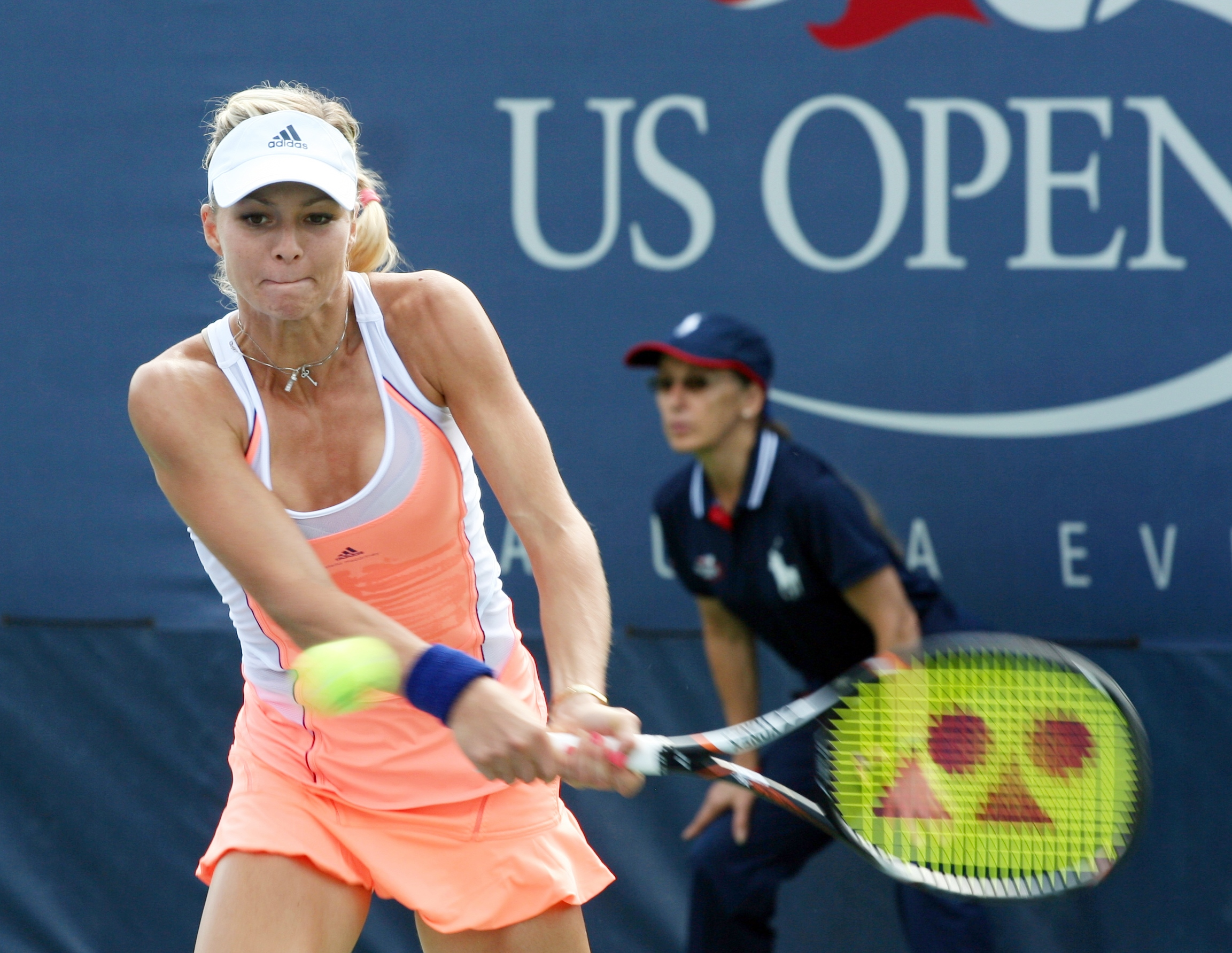 Tuesday, August 27